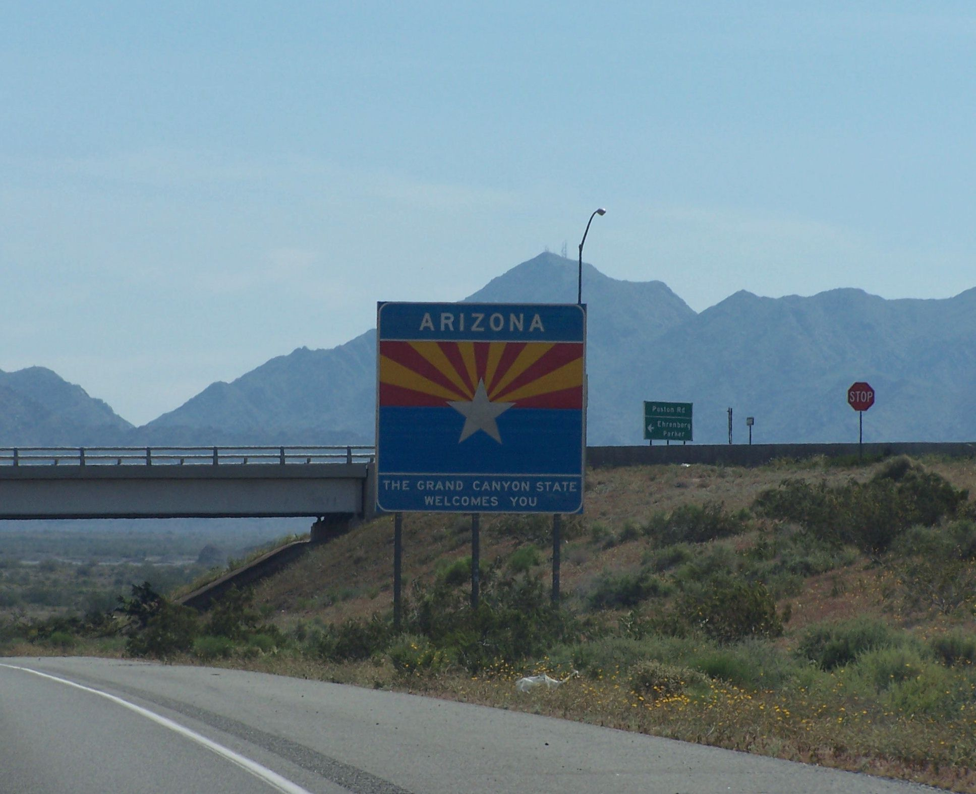 Description:Entering Arizona from California on Interstate 10, eastbound Date:March 17, 2005 Author:Brandy Jenkins